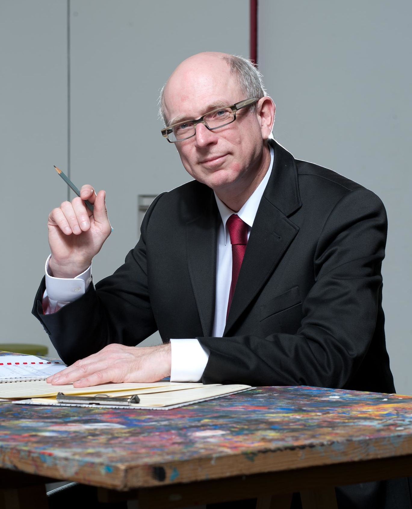 Helmut Rogl